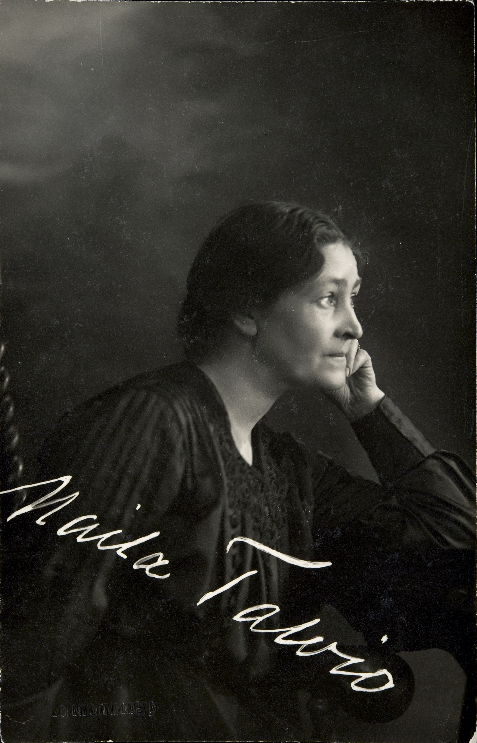 Signed publicity photograph of the Finnish writer Maila Talvio (1871–1951).